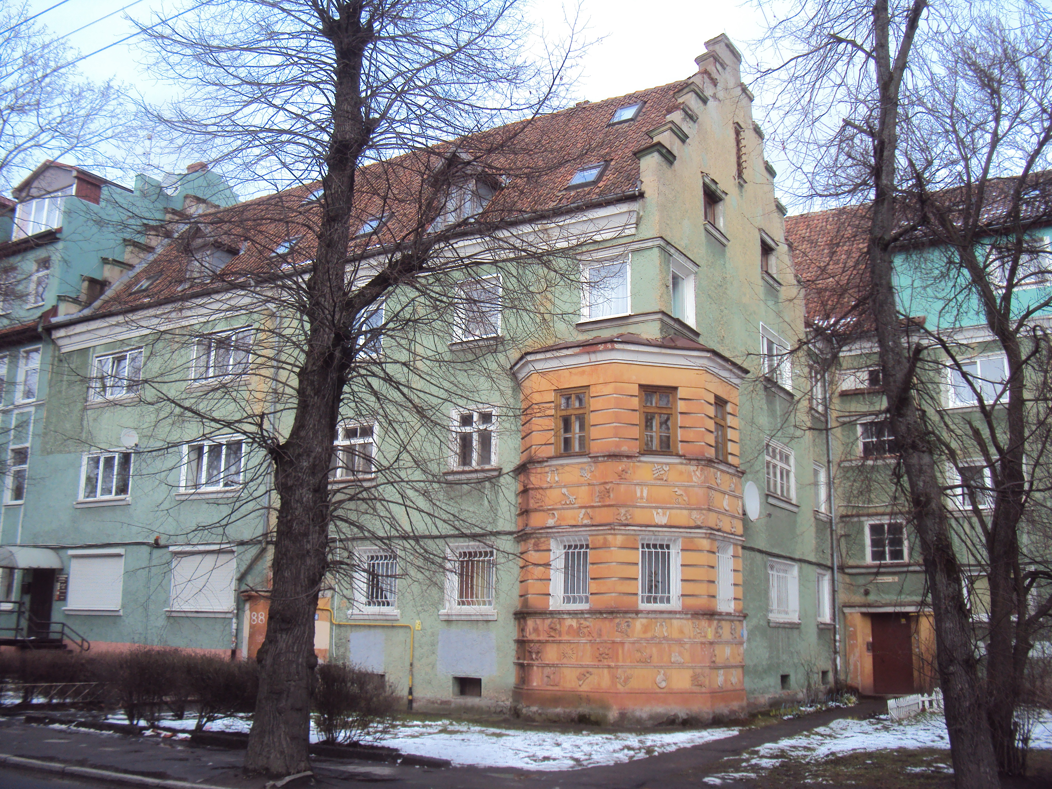 dwelling house